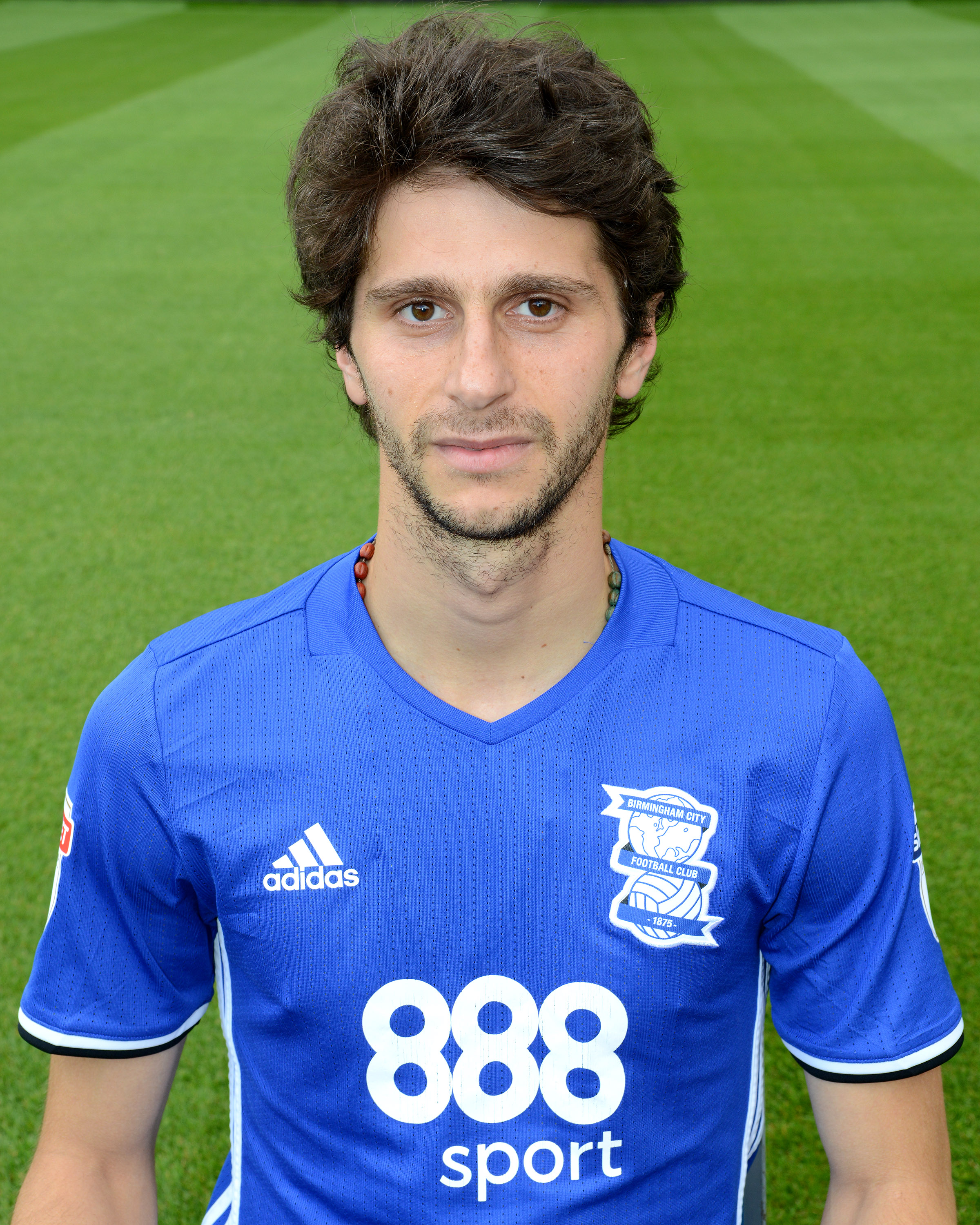 Diego Fabbrini in Birmingham City F.C. kit, 2016